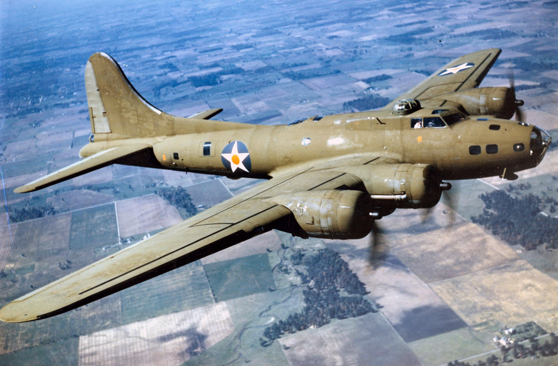 Boeing B-17E in flight. (U.S. Air Force photo)